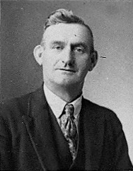 Photograph of Benjamin Roberts taken in 1935.